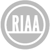 Recording Industry Association of America logo